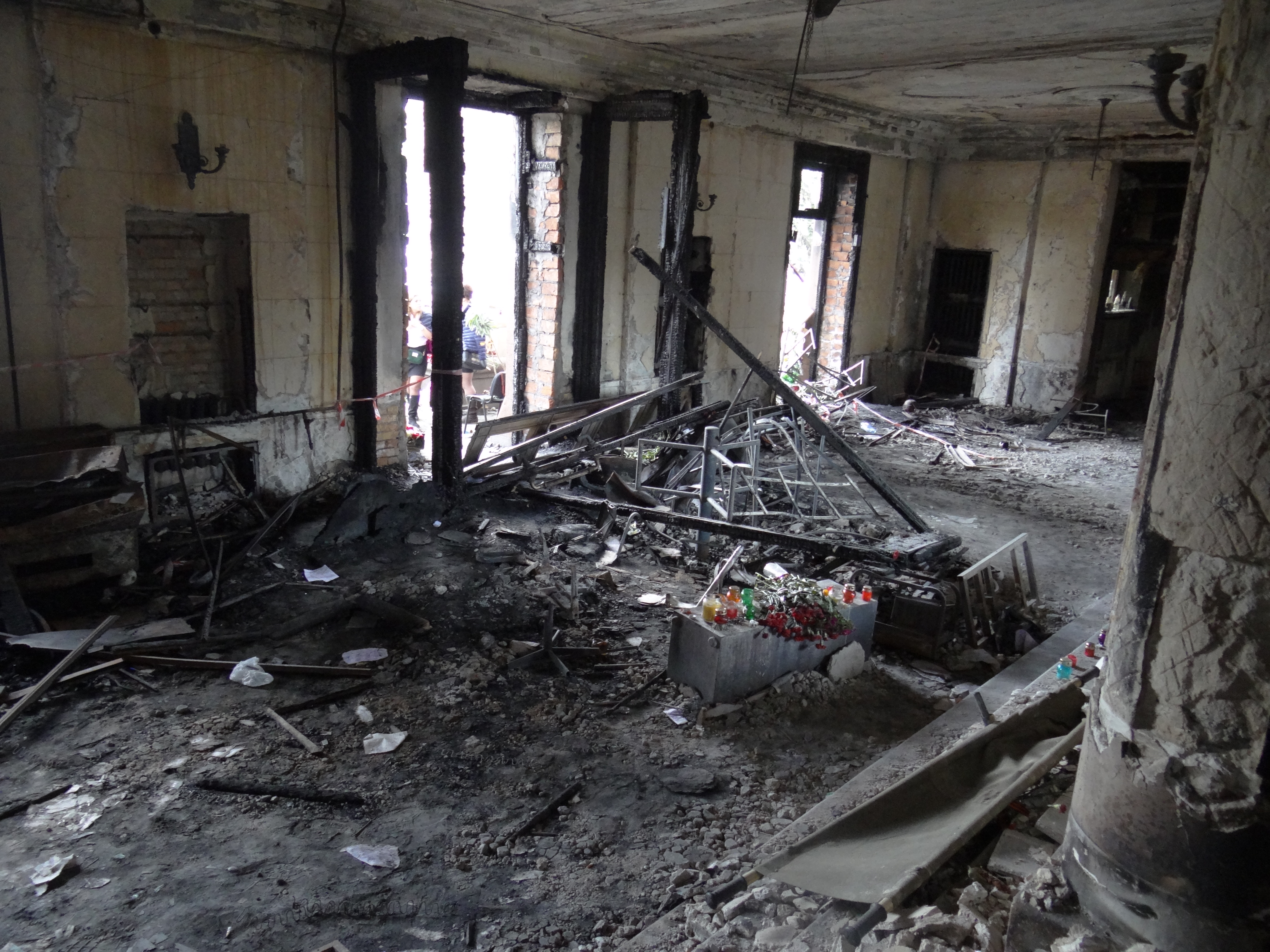 Burned down Profsojuz building in Odessa If you are using this picture elsewhere, I'd be glad to receive a notice :)